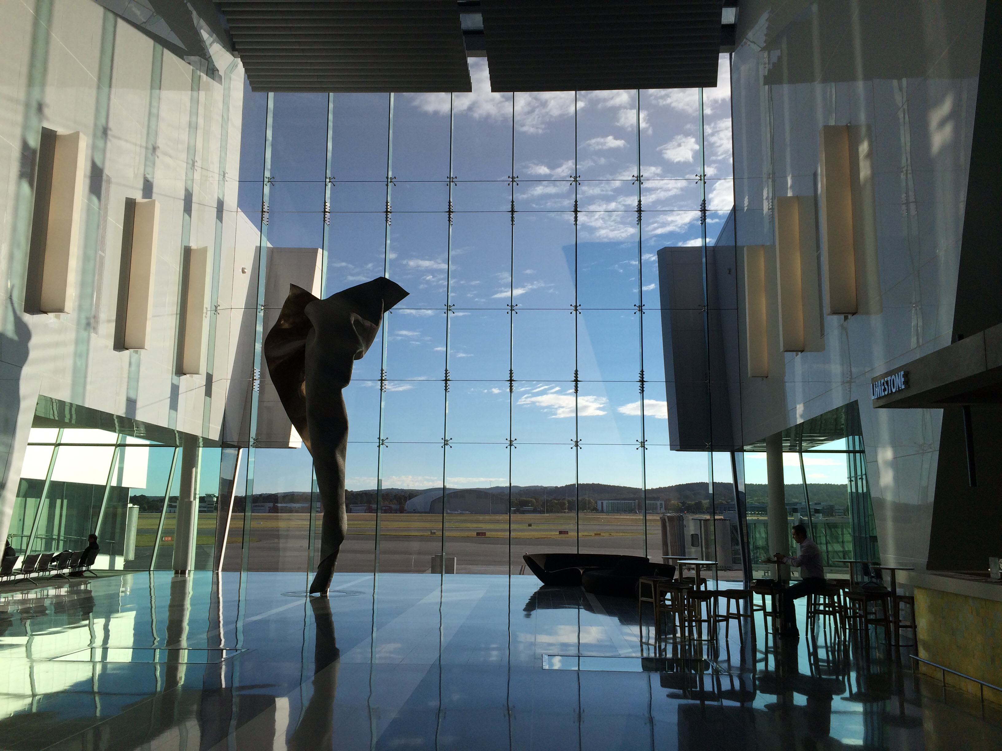 Atrium interior at Canberra International Airport